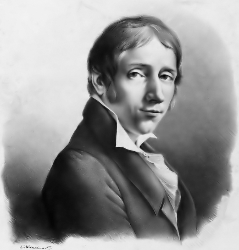 Jozef Lodewijk Geirnaert 1827